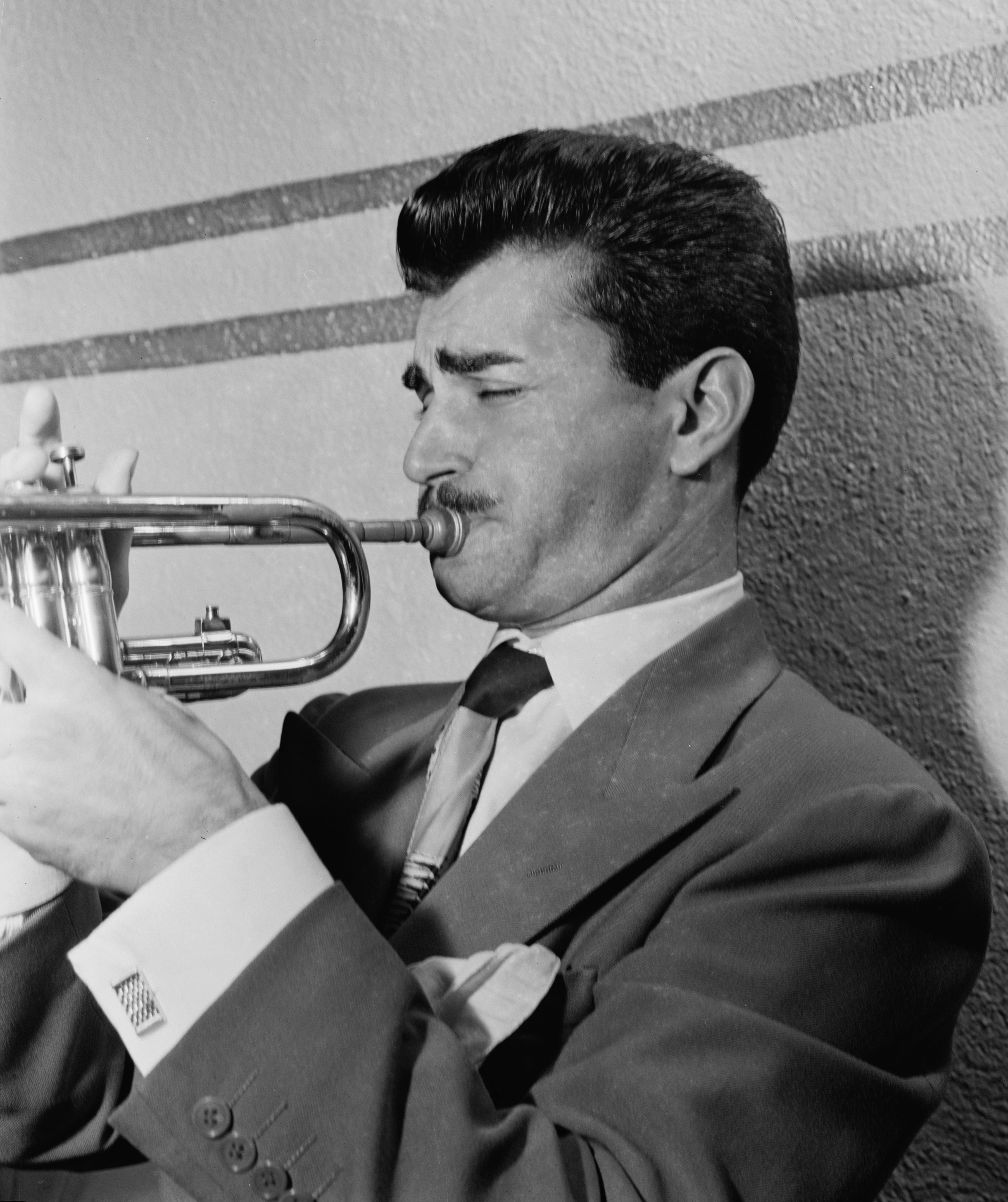 Portrait of Chico Alvarez, 1947 or 1948